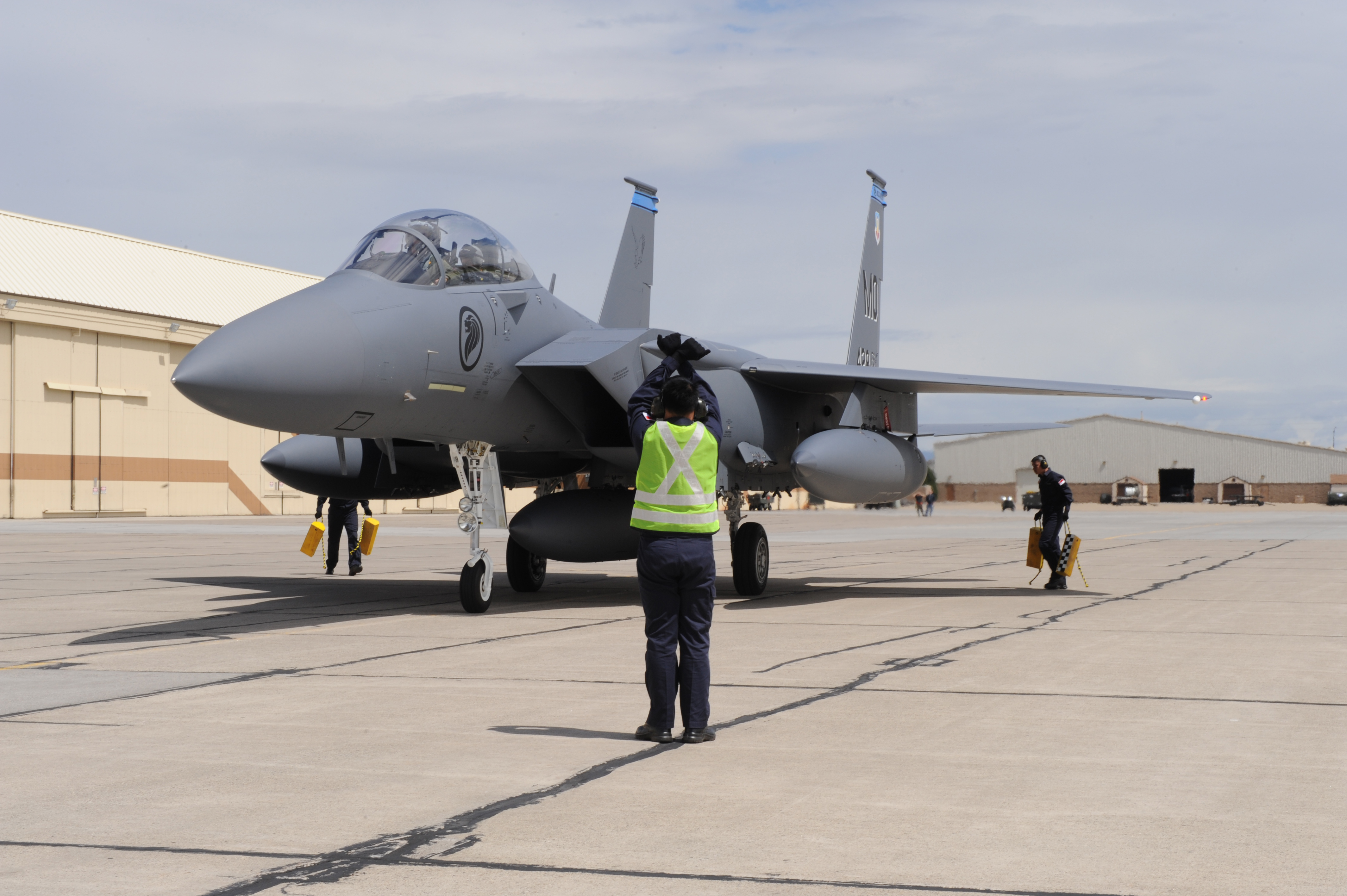 MOUNTAIN HOME AIR FORCE BASE, Idaho - A 428th Fighter Squadron crew chief member marshals an F-15SG fighter in front of the Republic of Singapore squadron May 6. During a ceremony May 18, the 366th Fighter Wing, in conjunction with the Republic of Singapore air force, will officially activate the 428th Fighter Squadron “Buccaneers” here. The unit will include approximately 180 active duty and 130 support personnel as part of a long-standing partnership with the United States to train its aircrews. Over the life of the program, as many as 2,000 active duty RSAF personnel will live and work on the base. (U.S. Air Force photo/ Airman 1st Class Renishia Richardson)